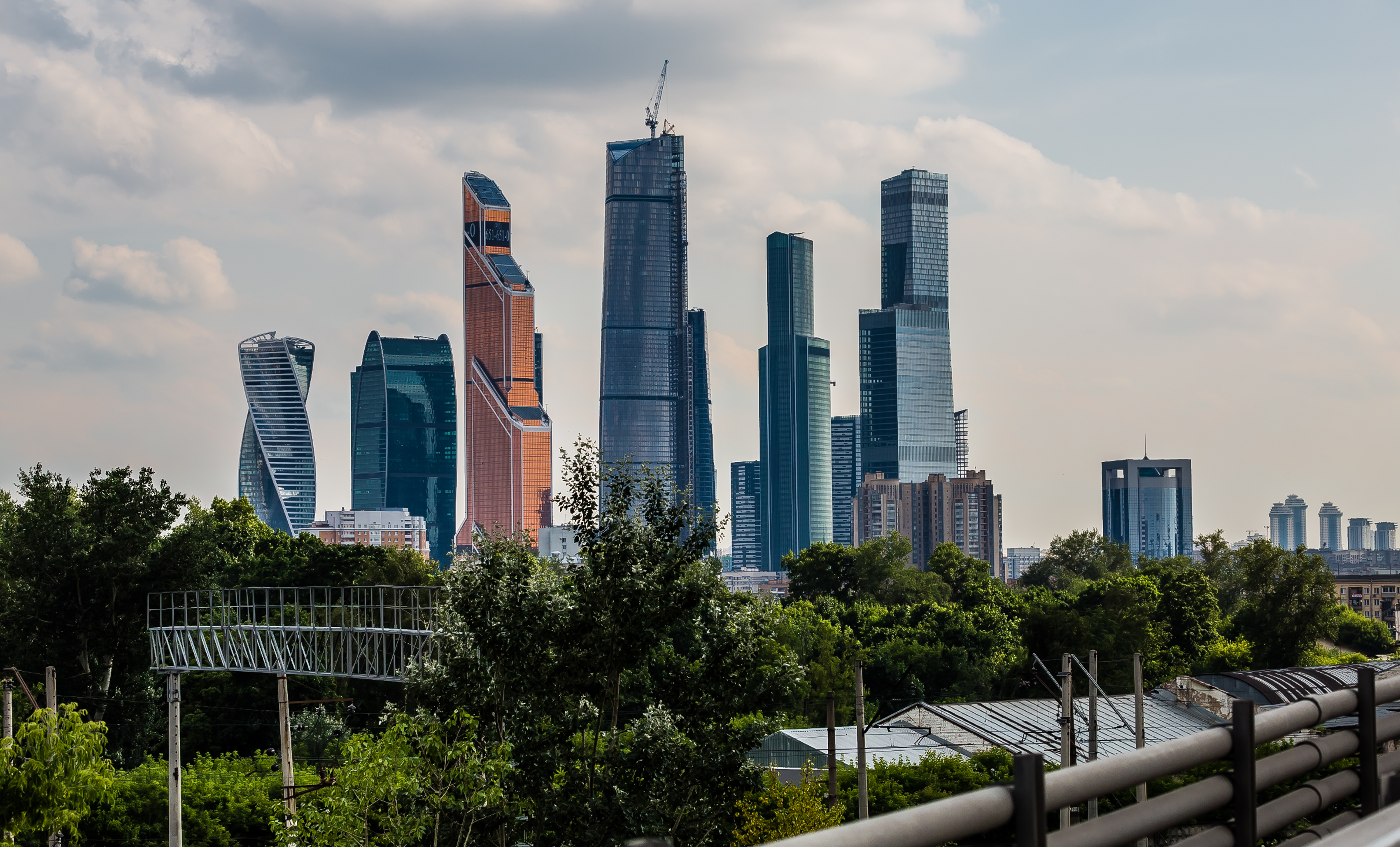 Moscow International Business Center